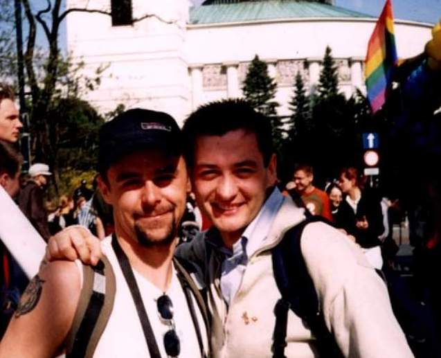 Robert Biedroń, right, a Polish gay activist and left politician (with other Polish gay activist, Krzysztof Nowak, in cap, editor of several gay web page like ])